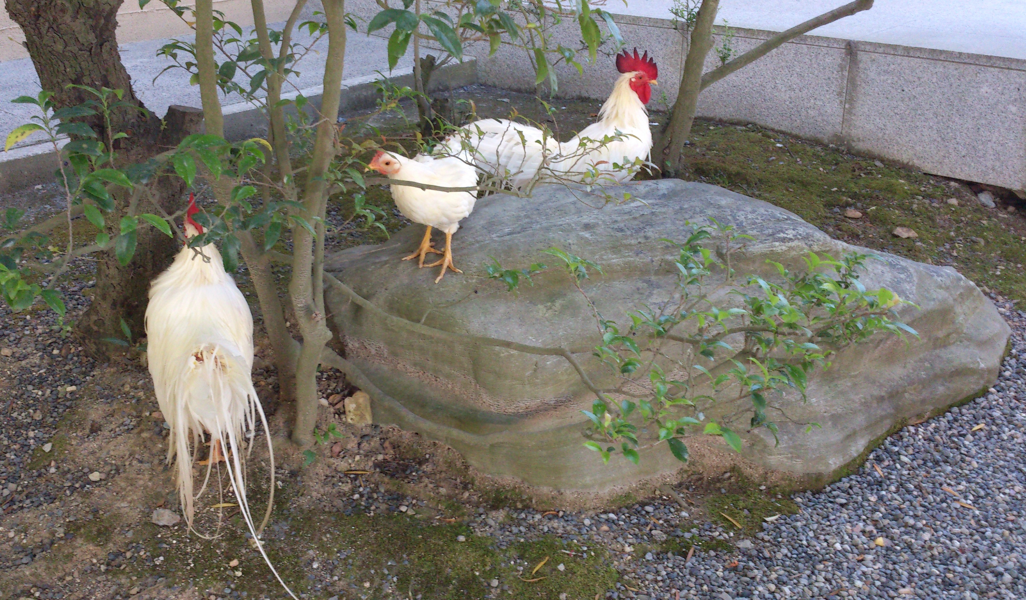 They are chickens in Ise Jingu. In Jingu, chickens are treated as messengers of gods.